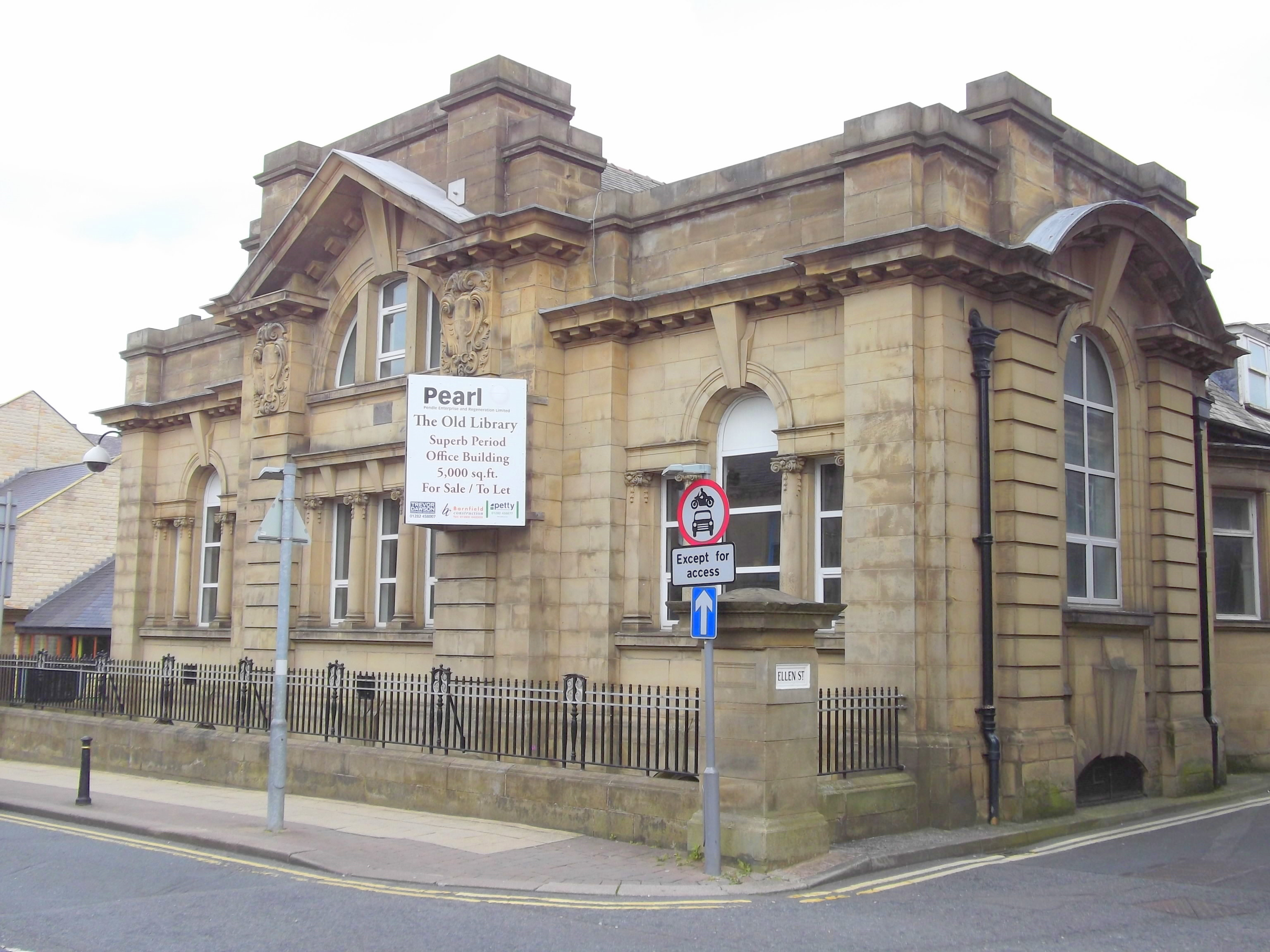 Photograph of the former library, Nelson, Lancashire, England